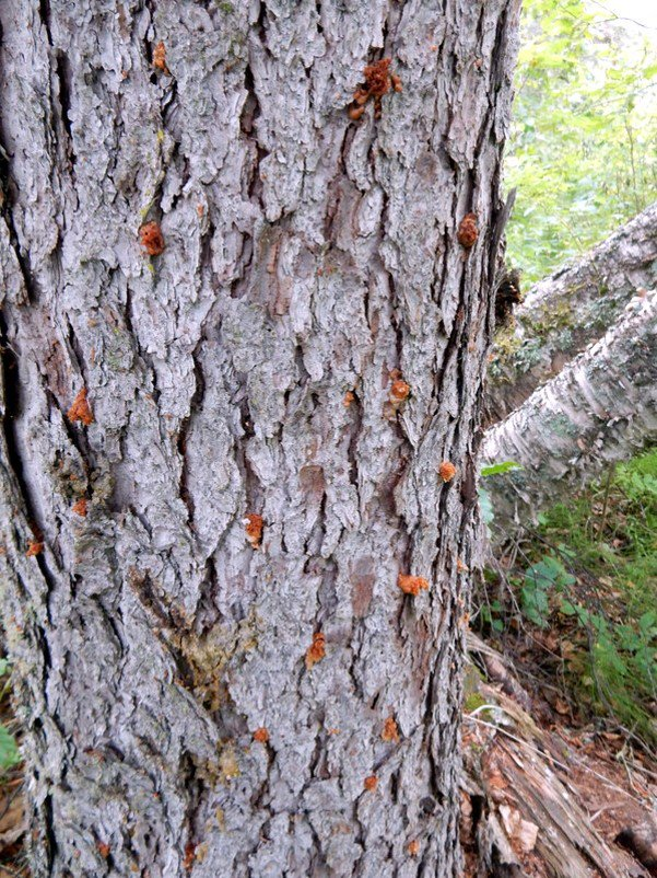 Recognize spruce beetle attacked trees. Look for pitch tubes on the lower 15 ft. of spruce trees.